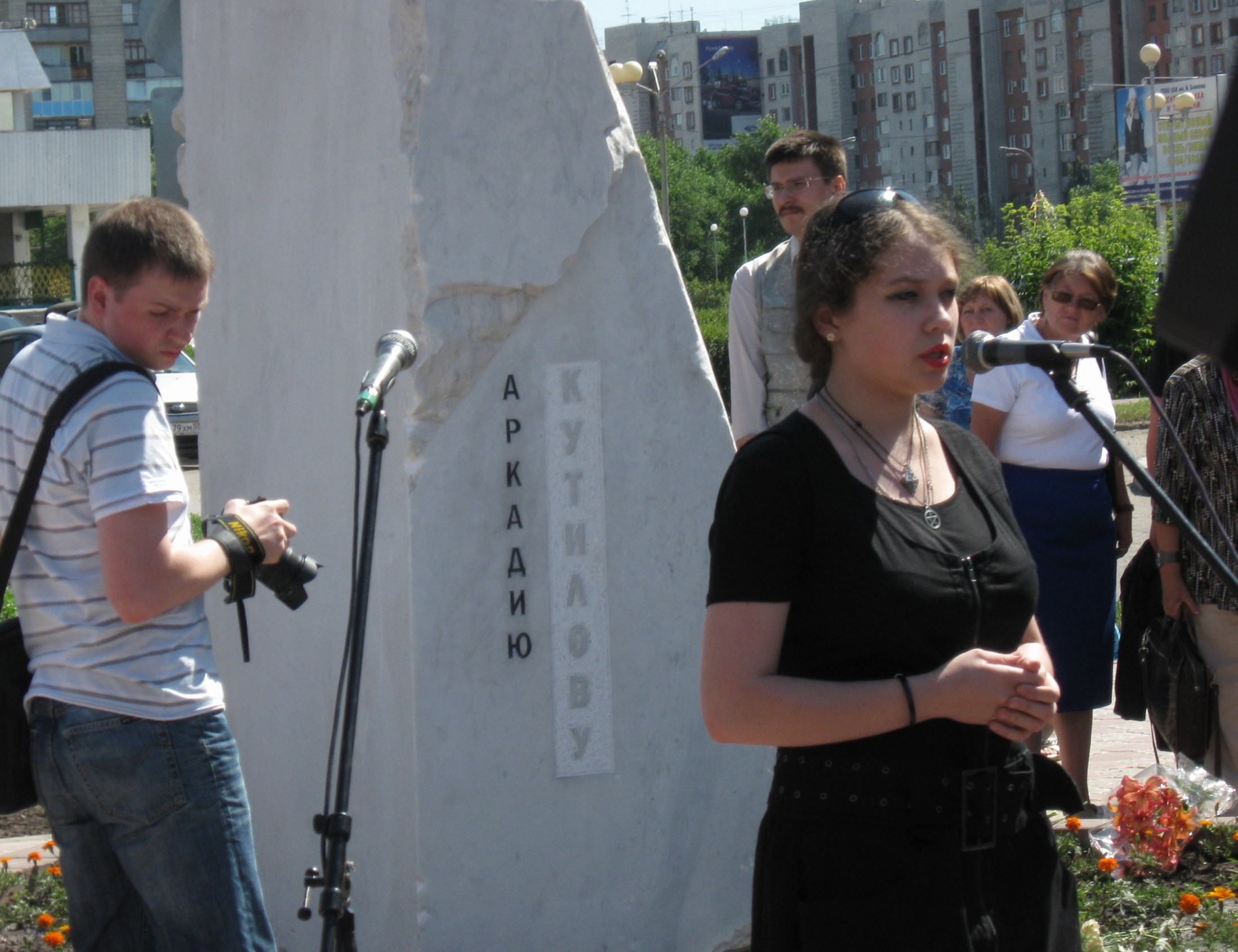 Opening of Memorial stone to Russian poet Arkady Kutilov.jpg